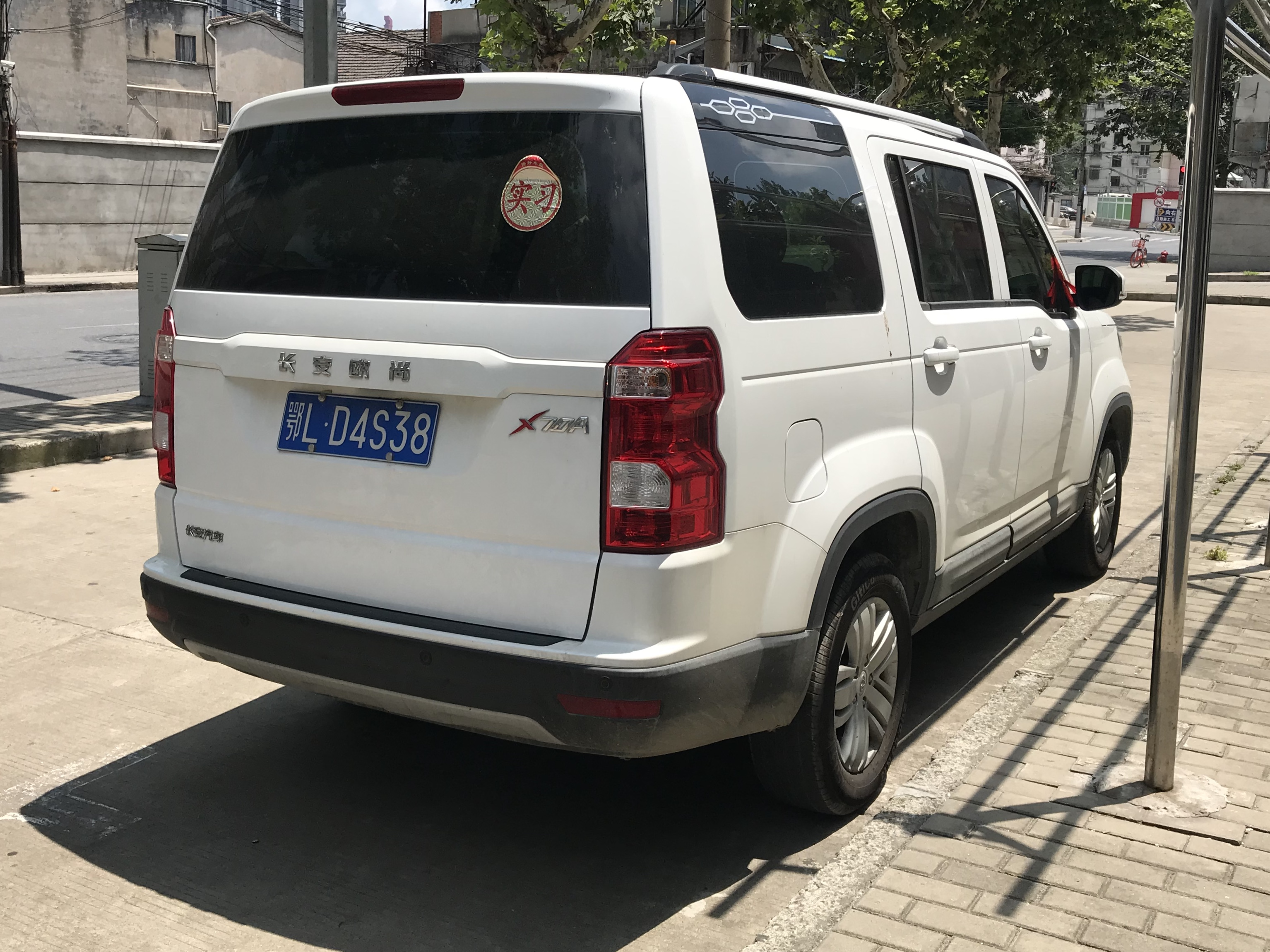 Changan Oushang X70A